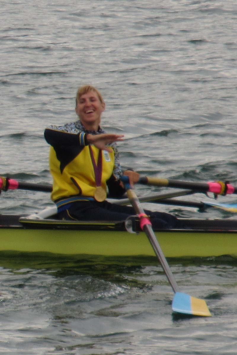 Yana Dementieva, Olympic champion from Ukraine